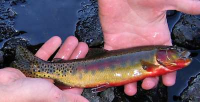 Small golden trout caught on a fly in the Wind River mountain range, Wyoming, USA.